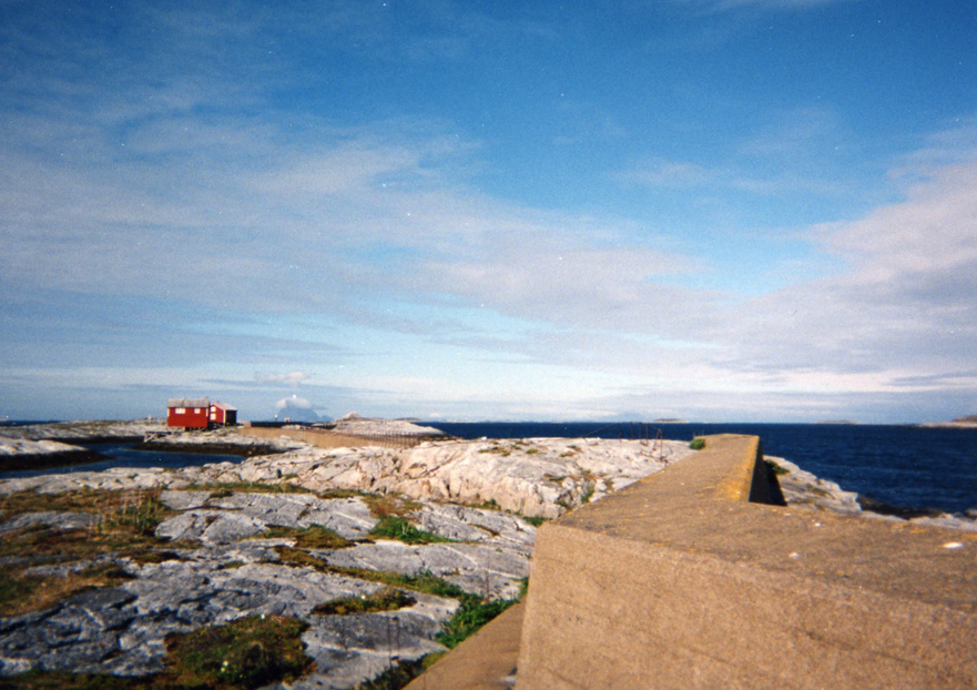 Sandsundvaer